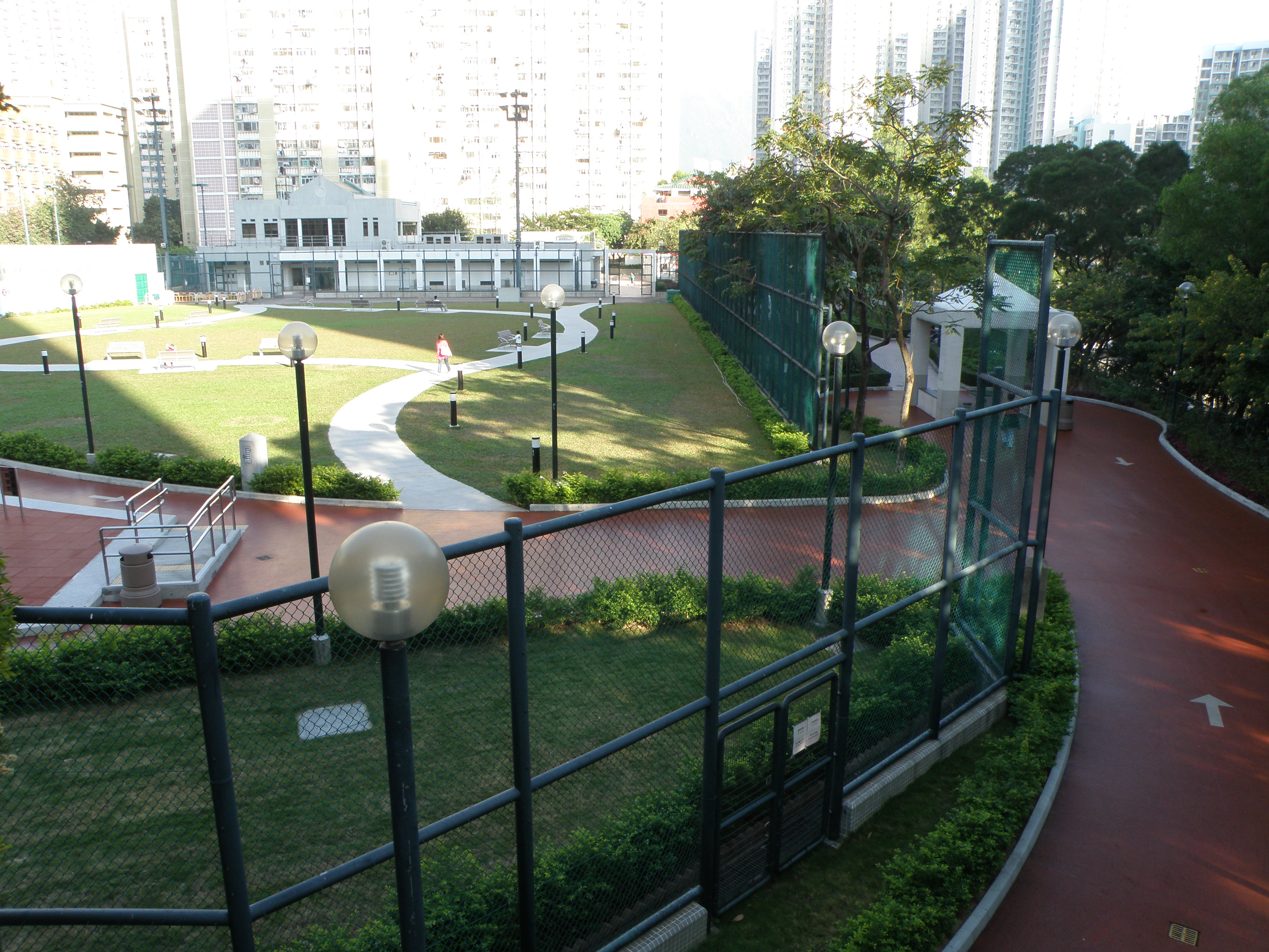 Ma Chai Hang Recreation Ground in Wong Tai Sin, Hong Kong.